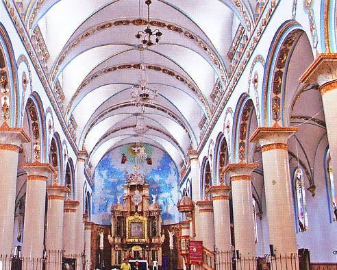 Vista interior del templo dedicado a la Virgen del Amparo, en Chinavita, Boyaca